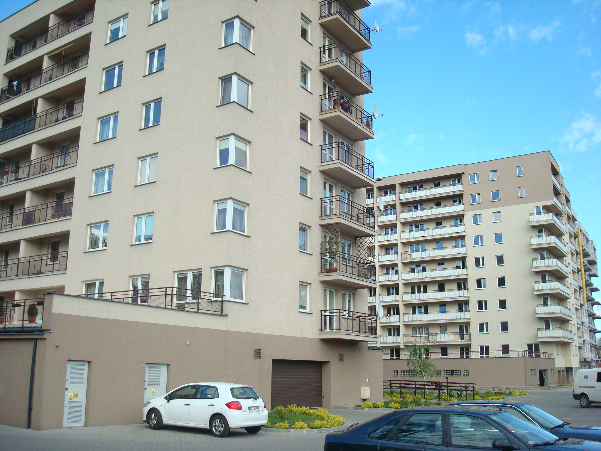 Housing estate "rynkowa" in Siedlce